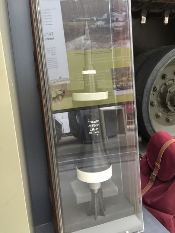 L28A1 APFSDS for Challenger 2, from Bovington Tank Museum.